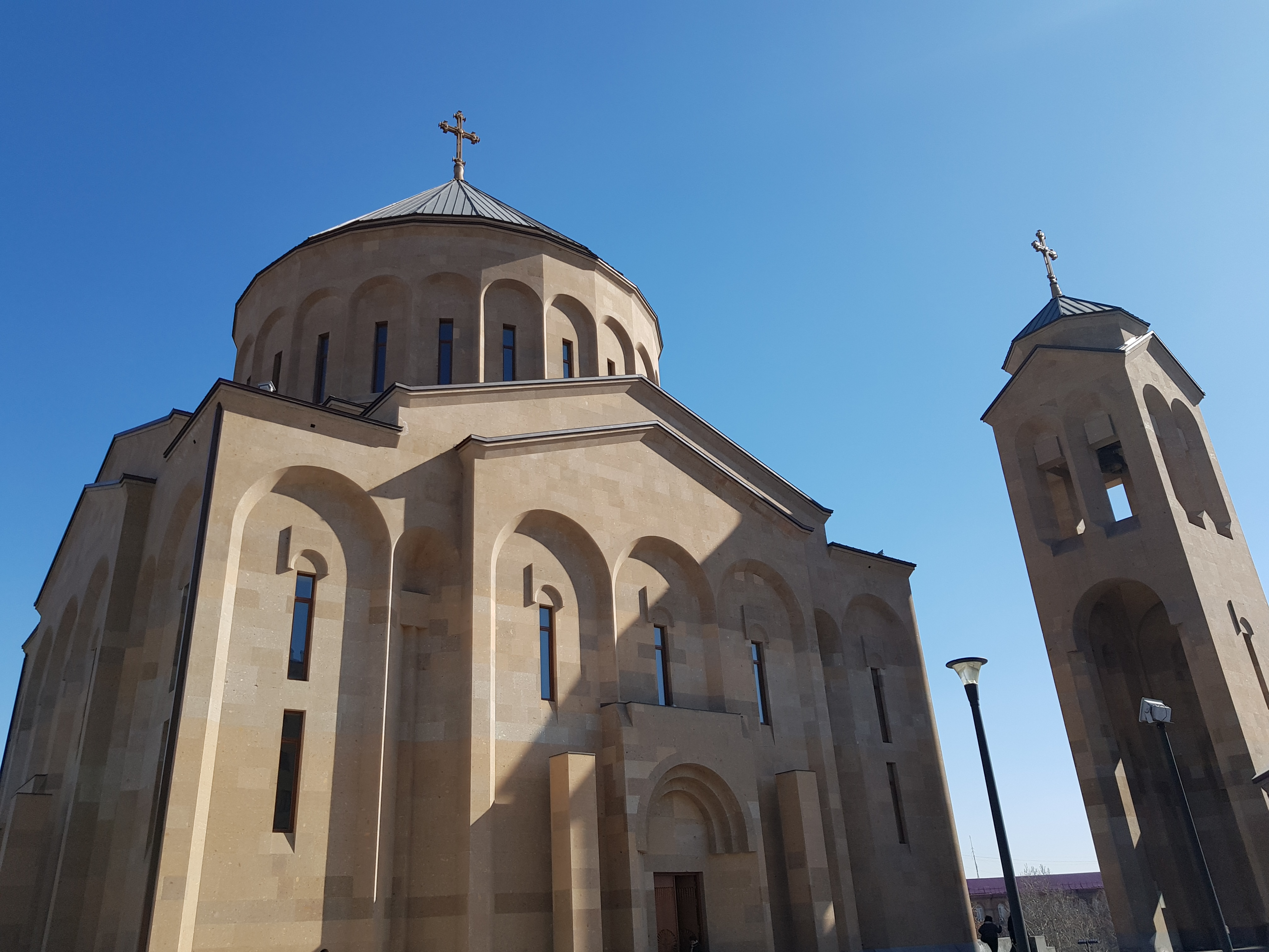 Holy Cross Church (Arabkir)